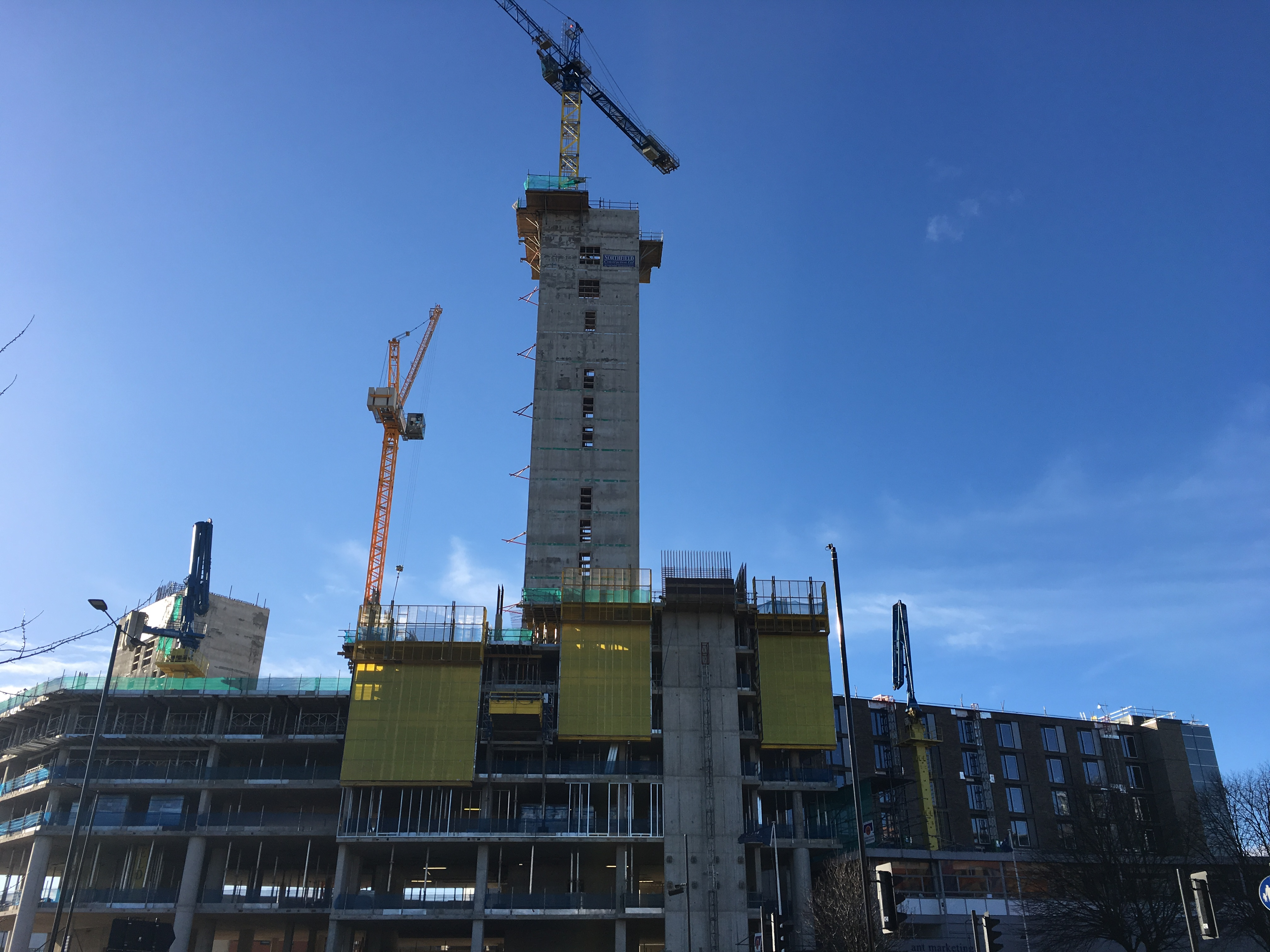 Phase One of New Era Square, Sheffield, South Yorkshire, under construction. The image shows the lift shaft for the project's 21 storey tower.